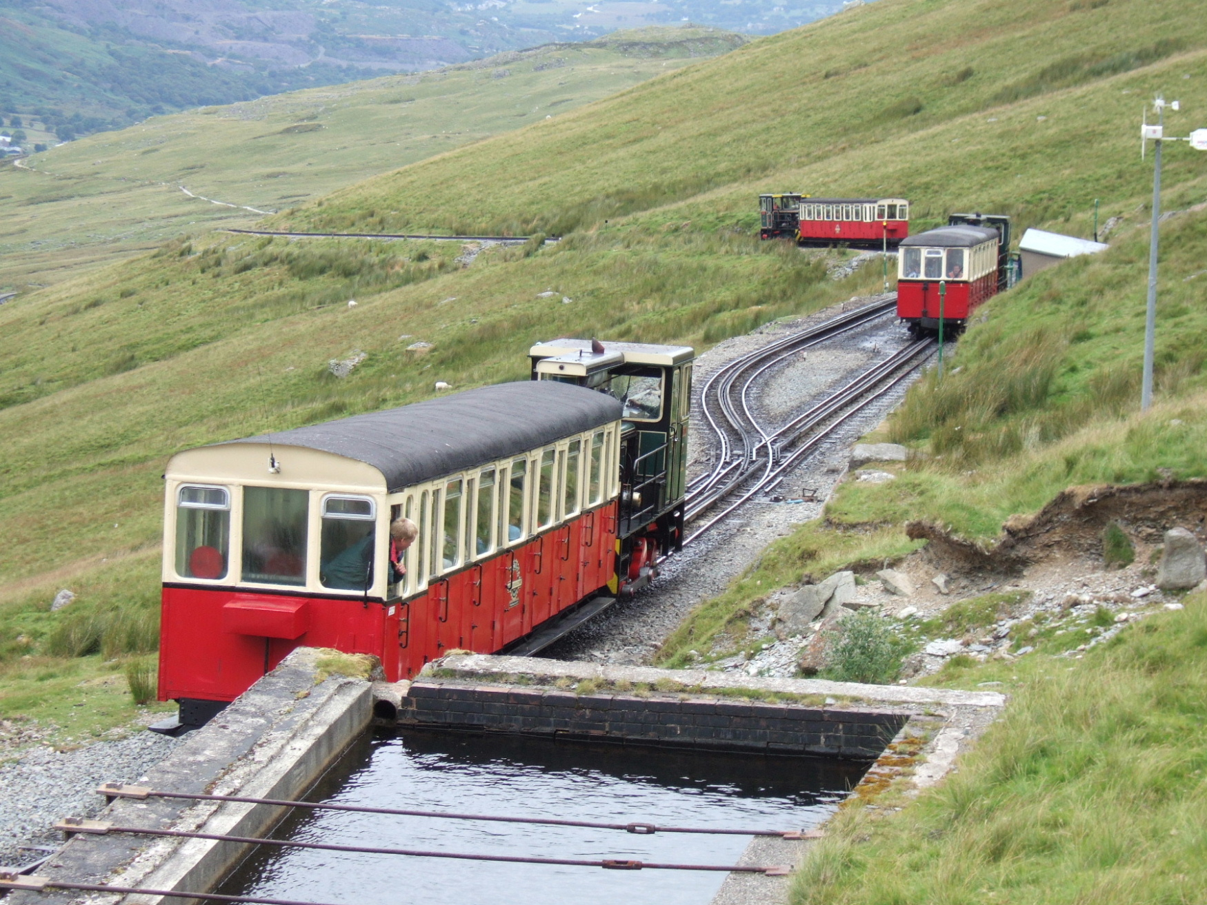 Snowdon Mountain Railway. Diesels No.9, 10 & 11 pass at Halfway Station. At the bottom of the picture is the water tank for steam locomotives. Note the windmill that powers the points here. 19th July 2005 Photographer - A.M.Hurrell Camera - Fuji FinePix F10 Modified - Trimmed and file size reduced using Finepix Software